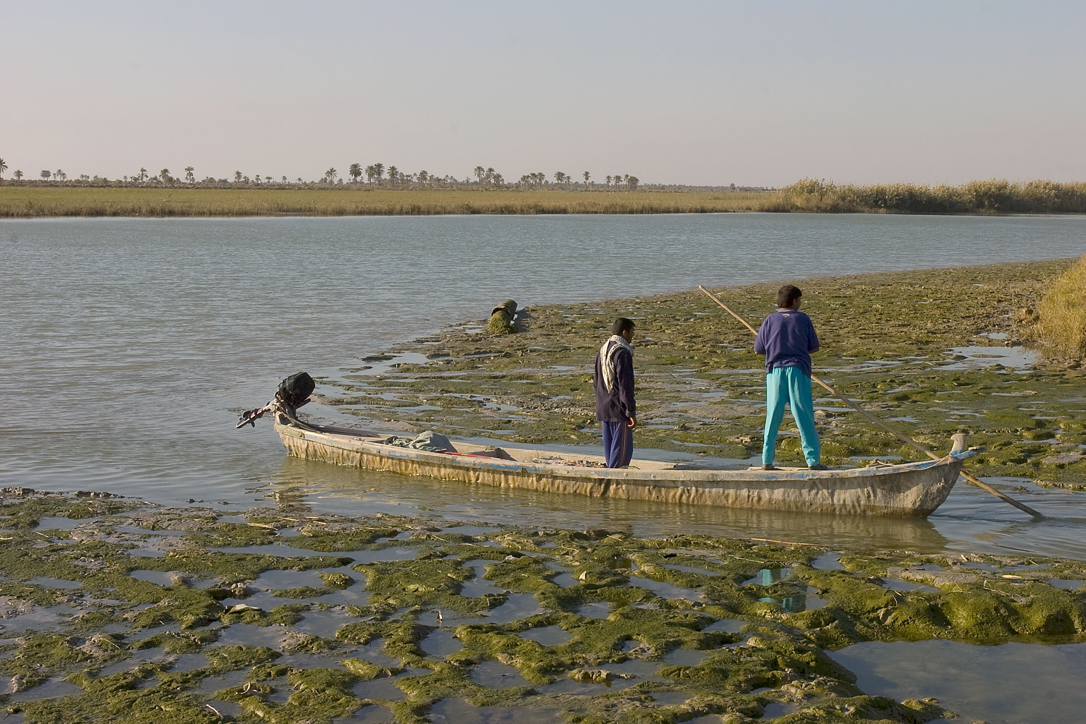 Iraqi fishermen pole along an irrigation channel in their mashoof fishing boat, on Dec. 19, 2008, in the Basra province, Iraq.